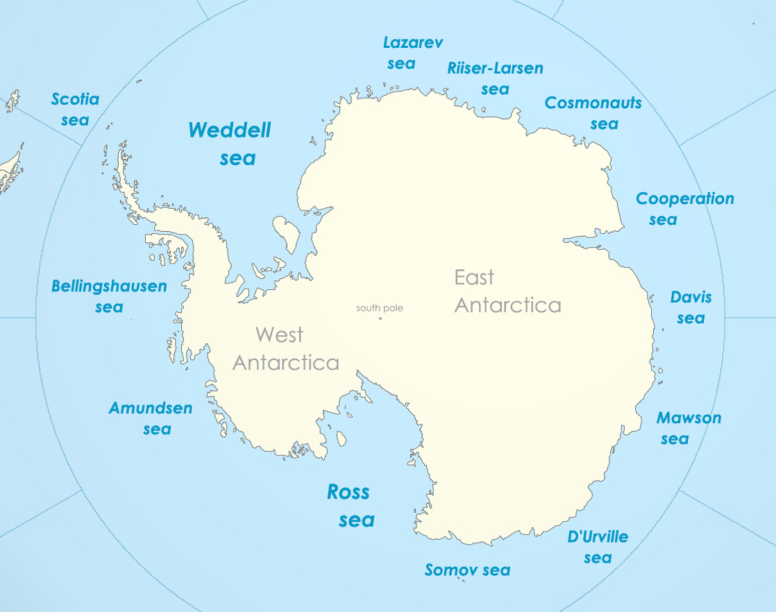 Seas of Southern Ocean